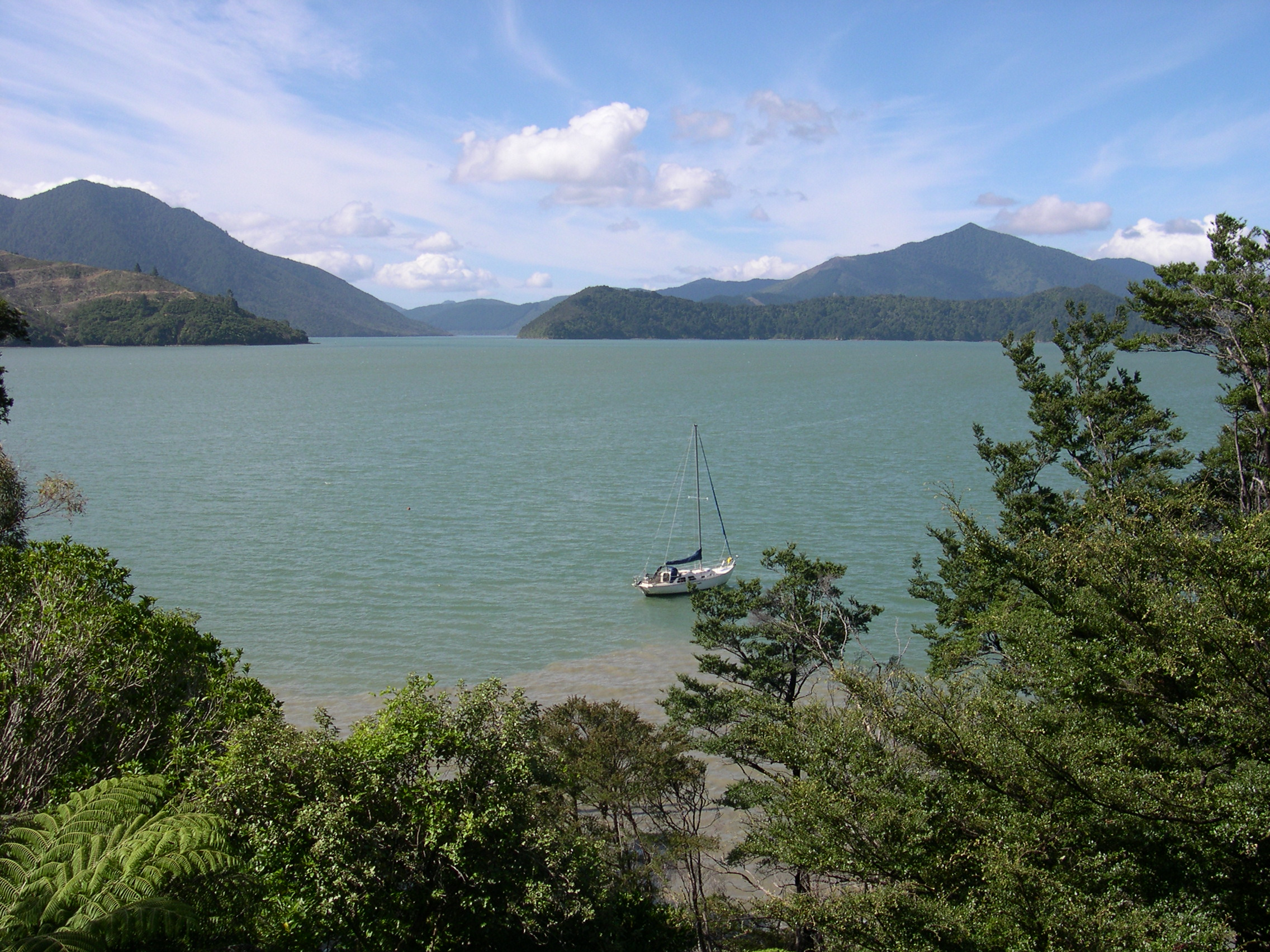 Moetapu Bay, on the Inner Pelorus Sound, looking north towards the Outer Pelorus Sound